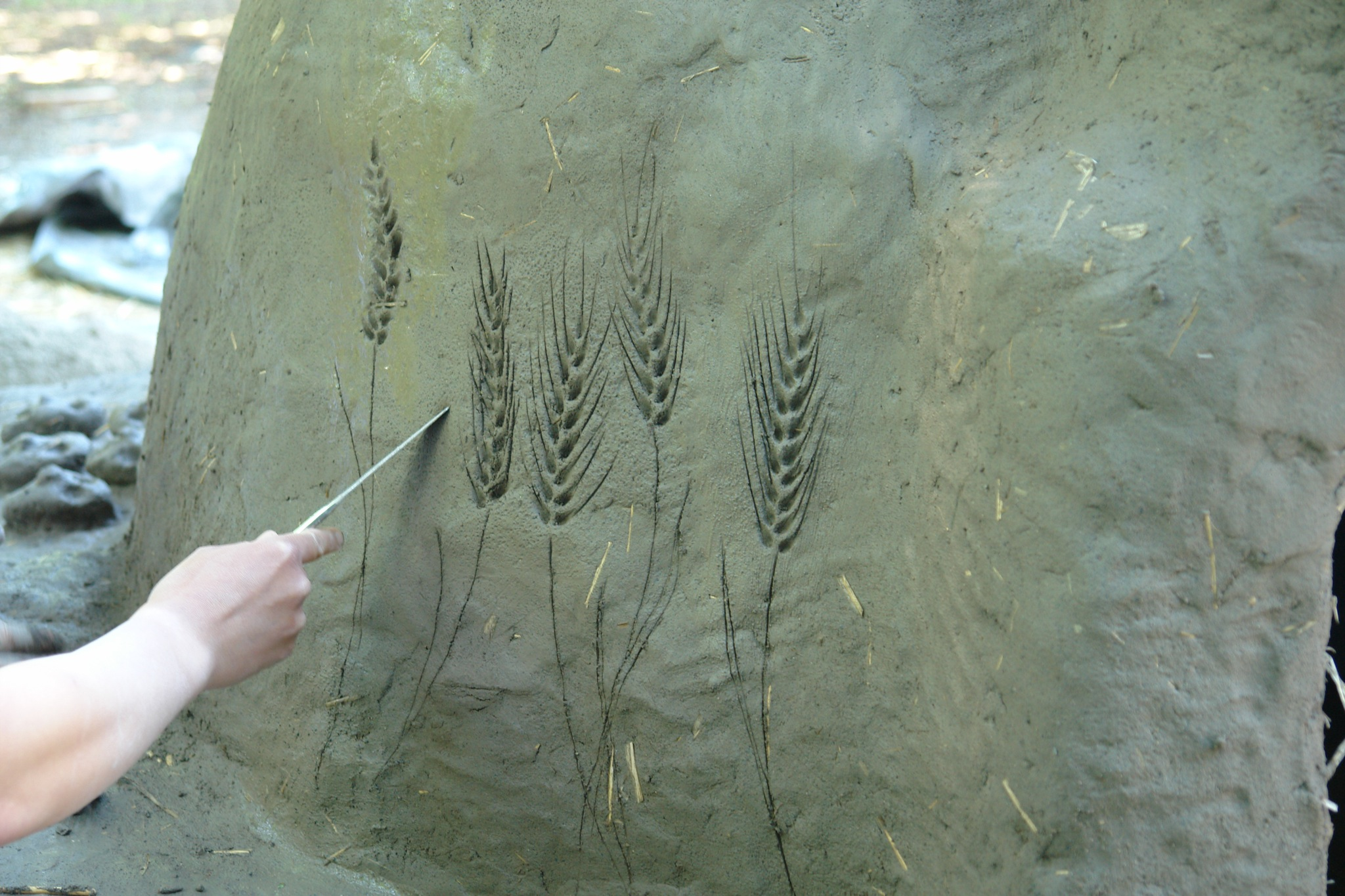 adding designs to cob oven exterior, University of Washington